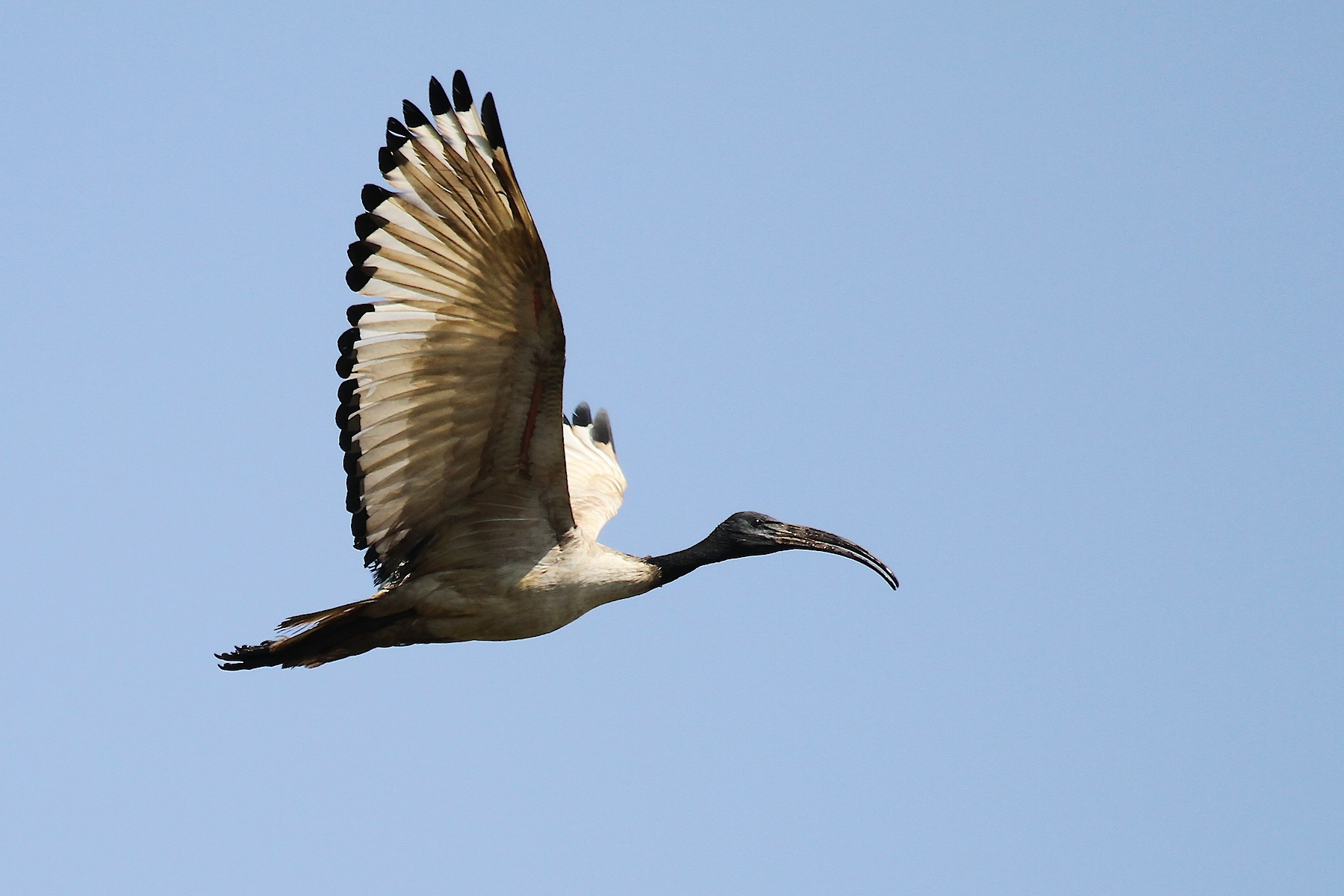 African sacred ibis (Threskiornis aethiopicus) in flight - Austin Roberts Bird Sanctuary, New Muckleneuk, Pretoria